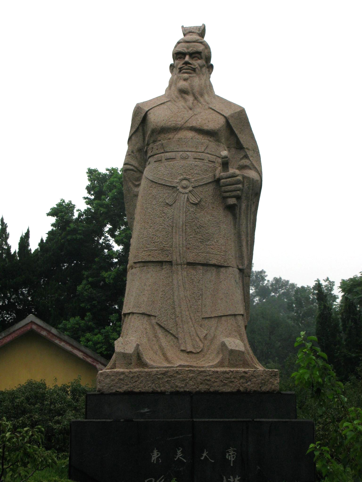 Statue of Sun Quan, founding emperor of the state of Eastern Wu during the Three Kingdoms period of China